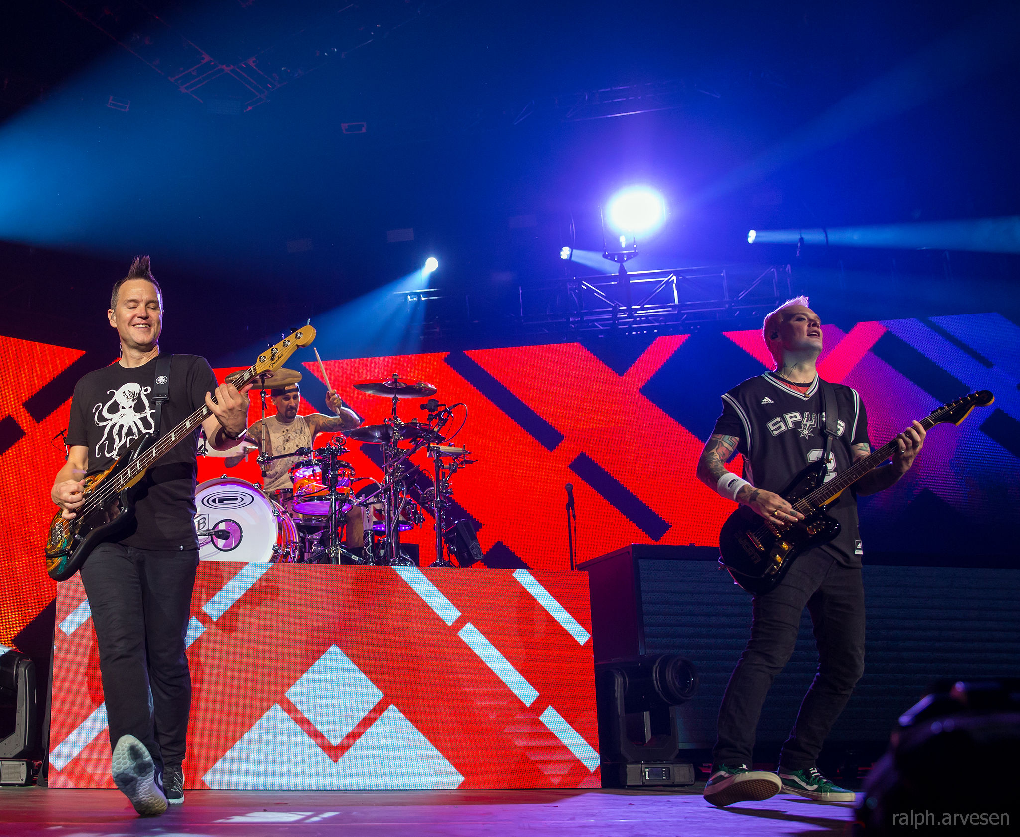 blink-182 performing at the AT&T Center in San Antonio, Texas on July 30, 2016.